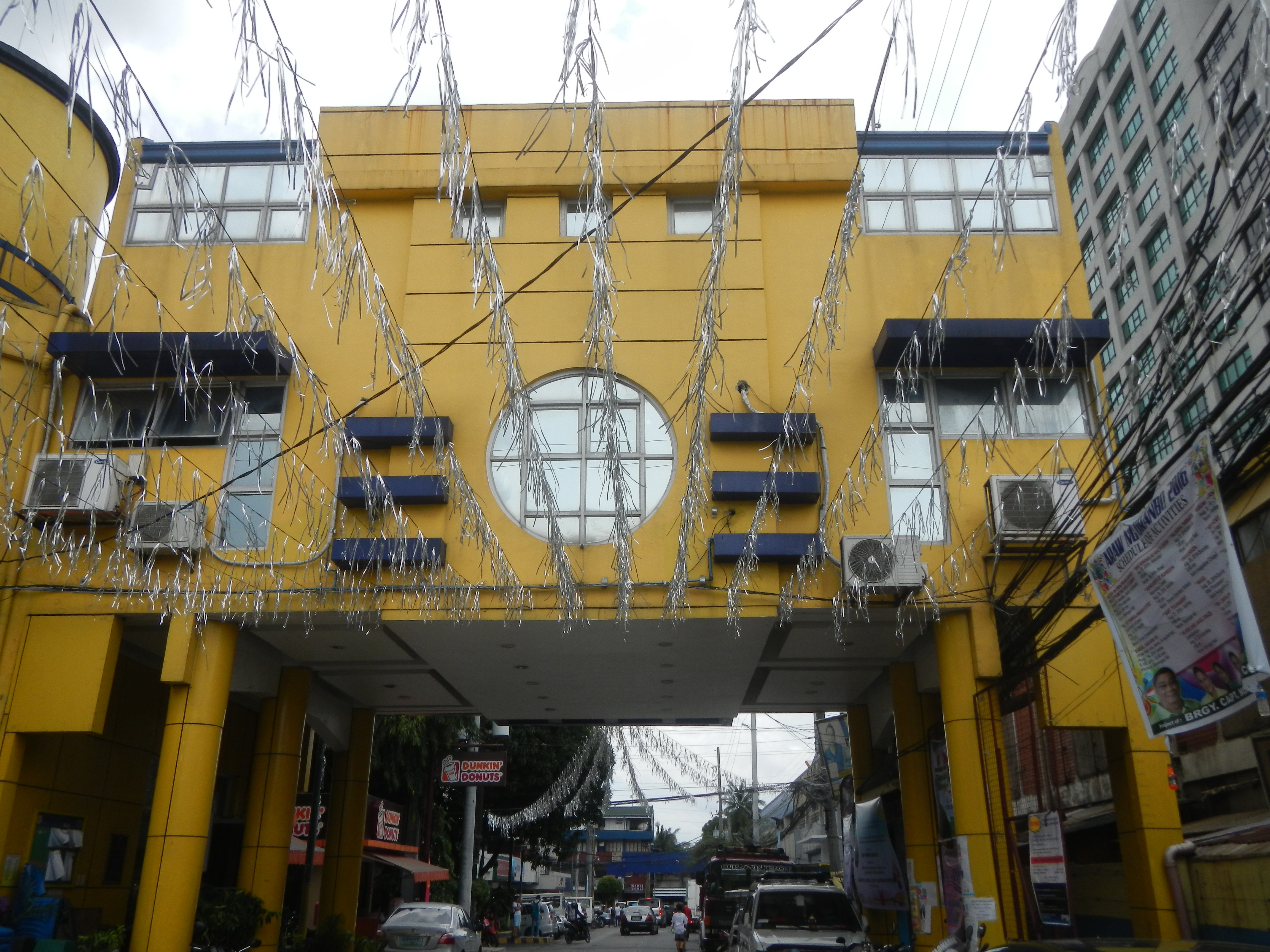 Shaw Boulevard Radial Road 5 Circumferential Road 5 in the List of barangays of Metro Manila, Barangay San Antonio beside Kapitolyo, and Oranbo, Pasig City; (Note: Judge Florentino Floro, the owner, to repeat, Donor Florentino Floro of all these photos hereby donate gratuitously, freely and unconditionally all these photos to and for Wikimedia Commons, exclusively, for public use of the public domain, and again without any condition whatsoever).